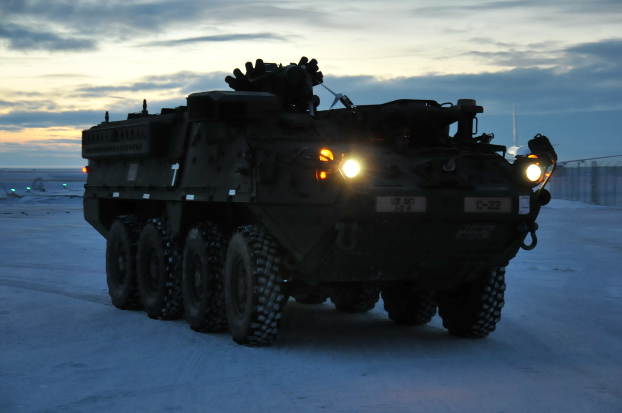 A U.S. Army Alaska Stryker from Bravo Company, 3-21 Infantry Regiment, 1st Stryker Brigade Combat Team, drives down the flight line after offloading from an Air Force C-17 Globemaster above the Arctic Circle as part of Operation Arctic Pegasus at Deadhorse, Alaska, Nov. 3, 2015. Arctic Pegasus is U.S. Army Alaska's annual joint exercise designed to test rapid-deployment and readiness in the Arctic. The exercise marks the first time Strykers have deployed above the Arctic Circle. The 1st Stryker Brigade Combat Team is the Army's northernmost unit and has the unique capability to deploy and operate in extreme cold regions. (U.S. Army Photo by Sgt. 1st Class Joel Gibson, U.S. Army Alaska Public Affairs)